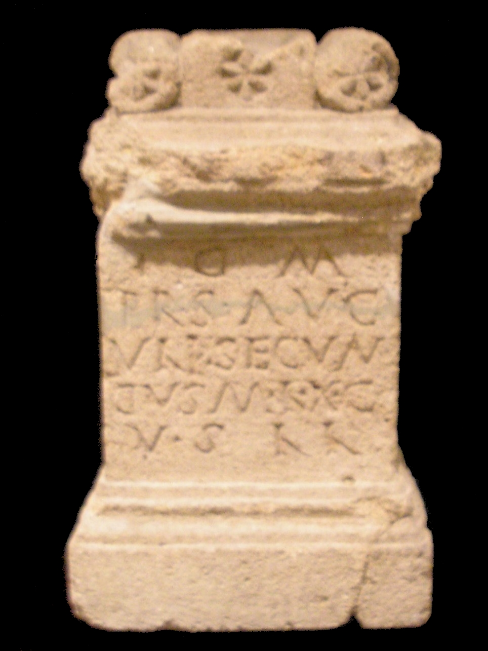 Worshipping altar to Mithras. Vienna 19, Sieveringer Strasse 132, 1896. From an unknown mithraeum on the territory of Vindobona, 2nd-3rd century A.D. Inscription: For the salvation of the emperor, dedicated by the legionary soldier Ulpius Secundus from the 10th Legion.